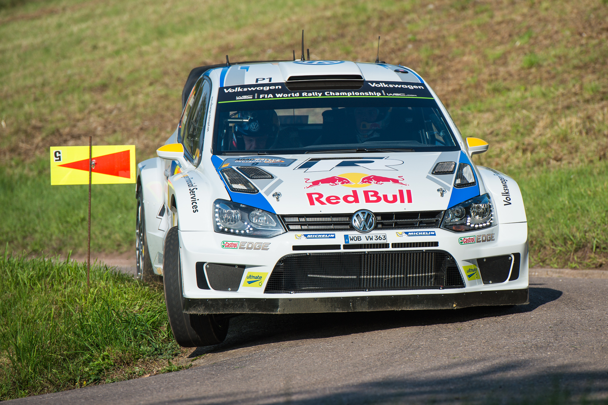 ADAC Rallye Deutschland 2014,Andreas Mikkelsen,FIA,FIA World Rally Championship,Motorsport,Ola Floene,Rally,Rallye,Shakedown,VW Polo WRC,Volkswagen Motorsport,Volkswagen Polo WRC,WRC